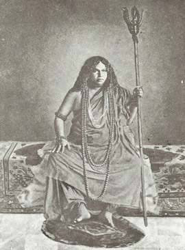 The image is the scanned photograph of Swami Pranavananda (1896-1941), the founder of Bharat Sevashram Sangha.